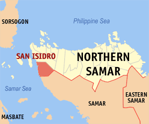 Map of Northern Samar showing the location of San Isidro